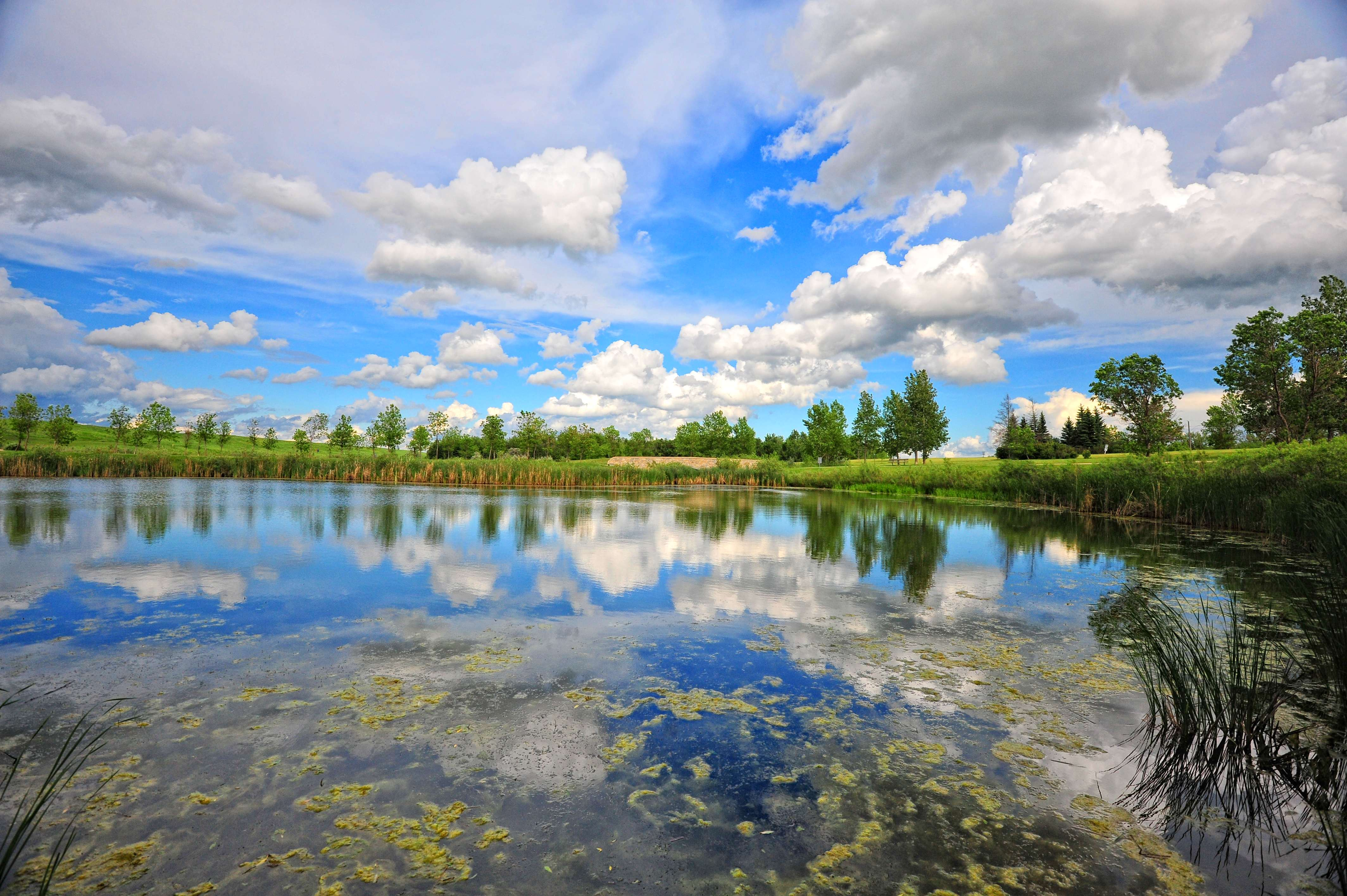 Kilcona Park Winnipeg Manitoba